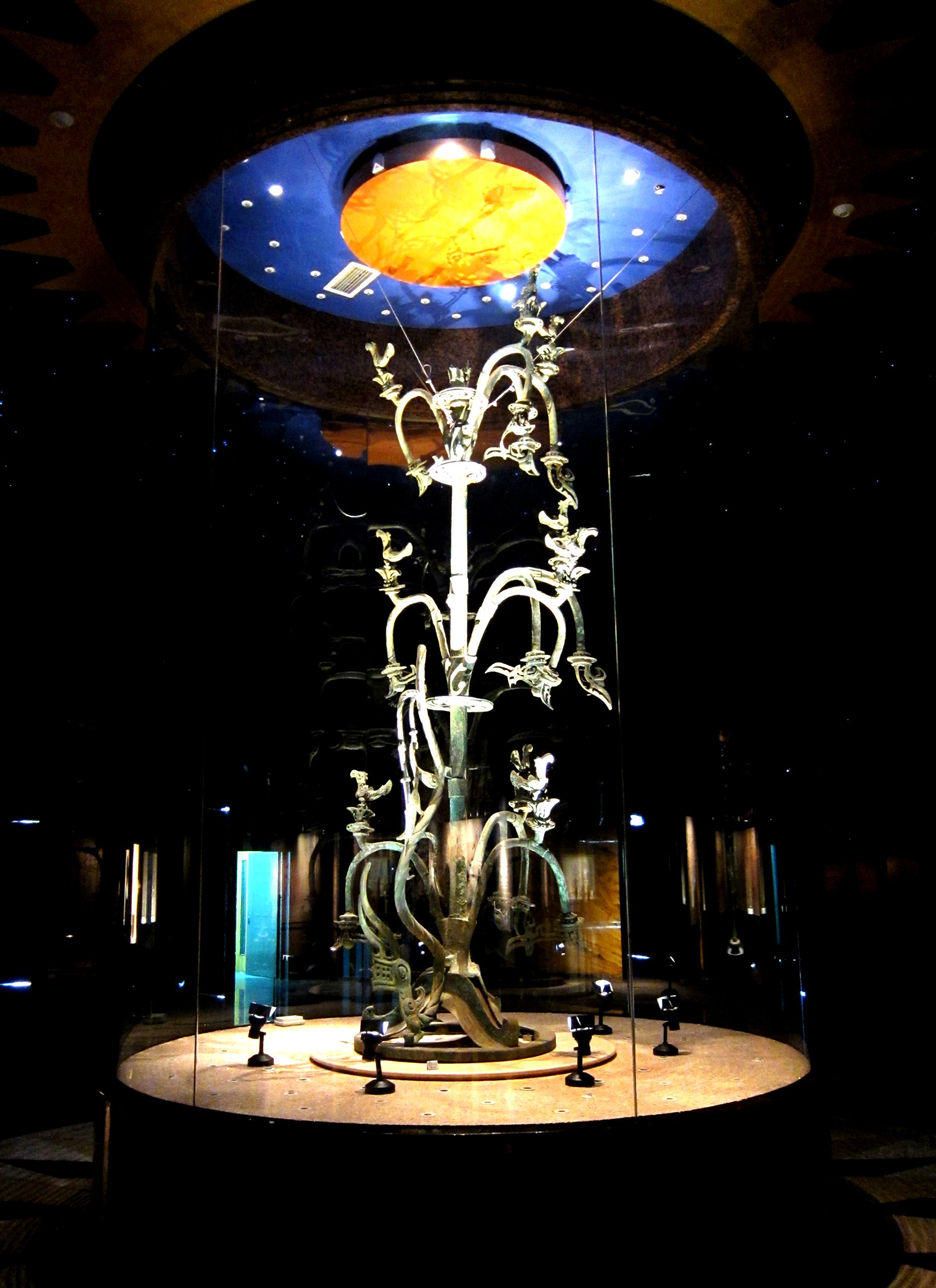 Height: 3.96 m The top part is lost but it is estimated that the total height with the top is 5 m. There are 9 sacred birds in the tree.